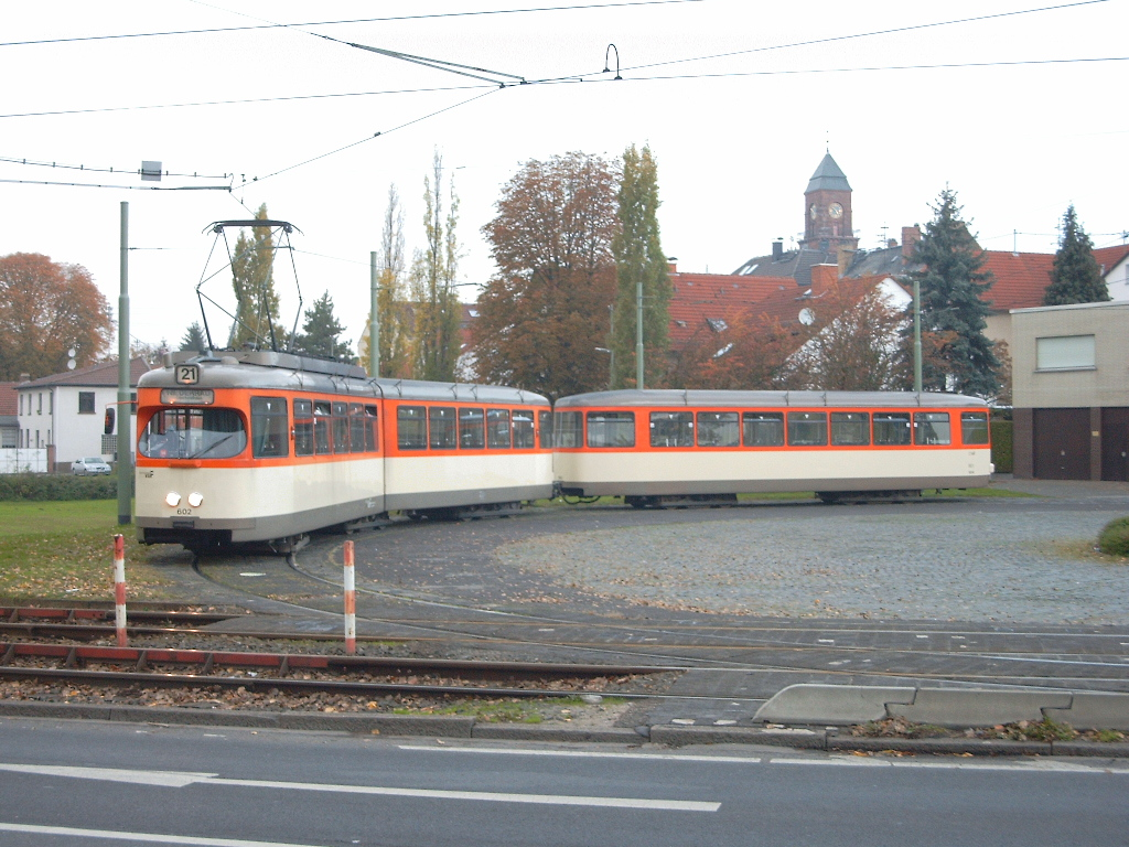 VGF articulated tramcar M 602 with trailer 1804 at Nied Kirche (Frankfurt am Main), October 29, 2004. Photo by myself, GNU-FDL. VGF-Gelenktriebwagen M 602 mit Beiwagen 1804 in der Schleife Nied Kirche (Frankfurt am Main), 29. Oktober 2004. Selbst fotografiert, GNU-FDL.